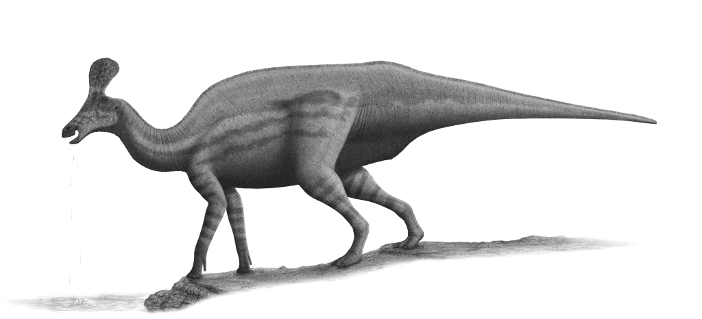 A life restoration of the hadrosaur dinosaur Tsintaosaurus spinorhinus showing the 2013 skull and crest interpretation by Prieto-Márquez & Wagner. • Based proportionally on a reconstruction by Gregory Paul;[1] with the head based on a reconstruction by Albert Prieto-Márquez & Jonathan R. Wagner.[2] References ↑ Paul, G.S. , ed. (2000) The Scientific American Book of Dinosaurs, St. Martin's Press ISBN: 0-312-26226-4. ↑ Prieto-Márquez, A. (2013). "The ‘Unicorn’ Dinosaur That Wasn’t: A New Reconstruction of the Crest of Tsintaosaurus and the Early Evolution of the Lambeosaurine Crest and Rostrum". PLOS ONE 8 (11): e82268.